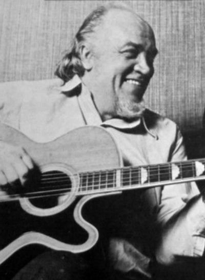 A promo shot taken in 1980 for his advertising.